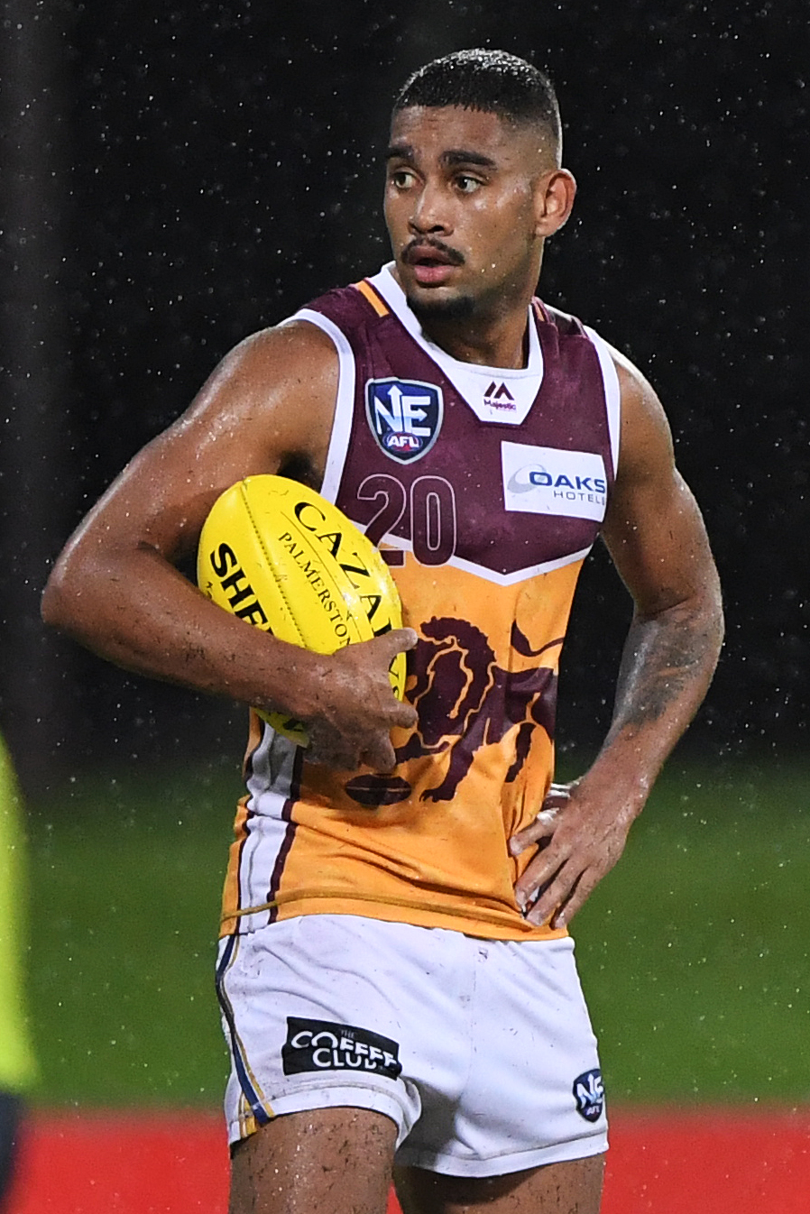 Cedric Cox of the Brisbane Lions during the NEAFL round one match between NT Thunder and Brisbane Lions at TIO Stadium on 6 April 2019 in Darwin, Australia.